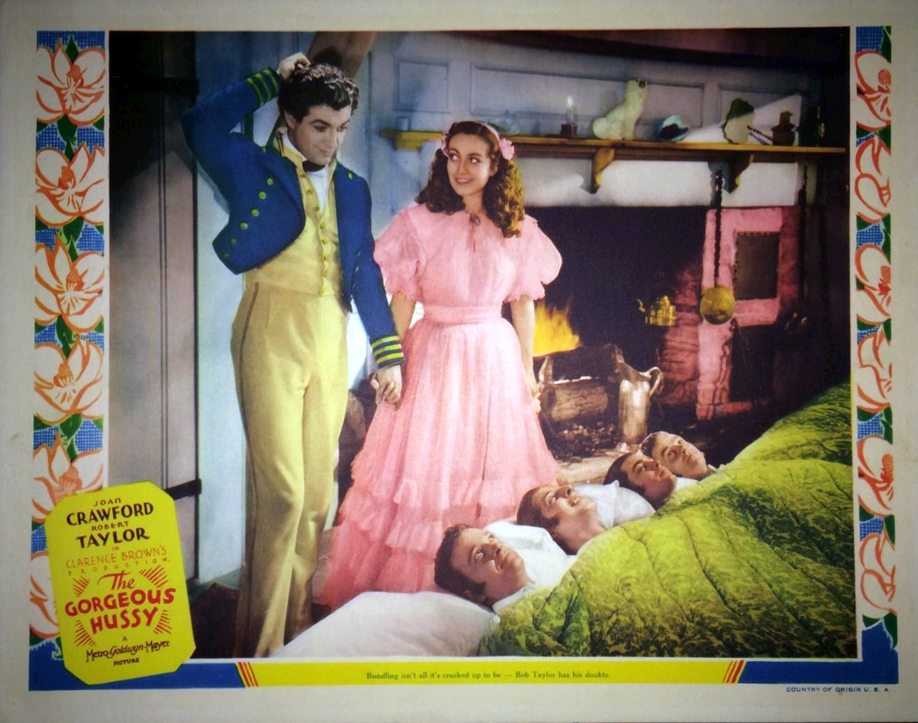 Lobby card for the 1936 film The Gorgeous Hussy.